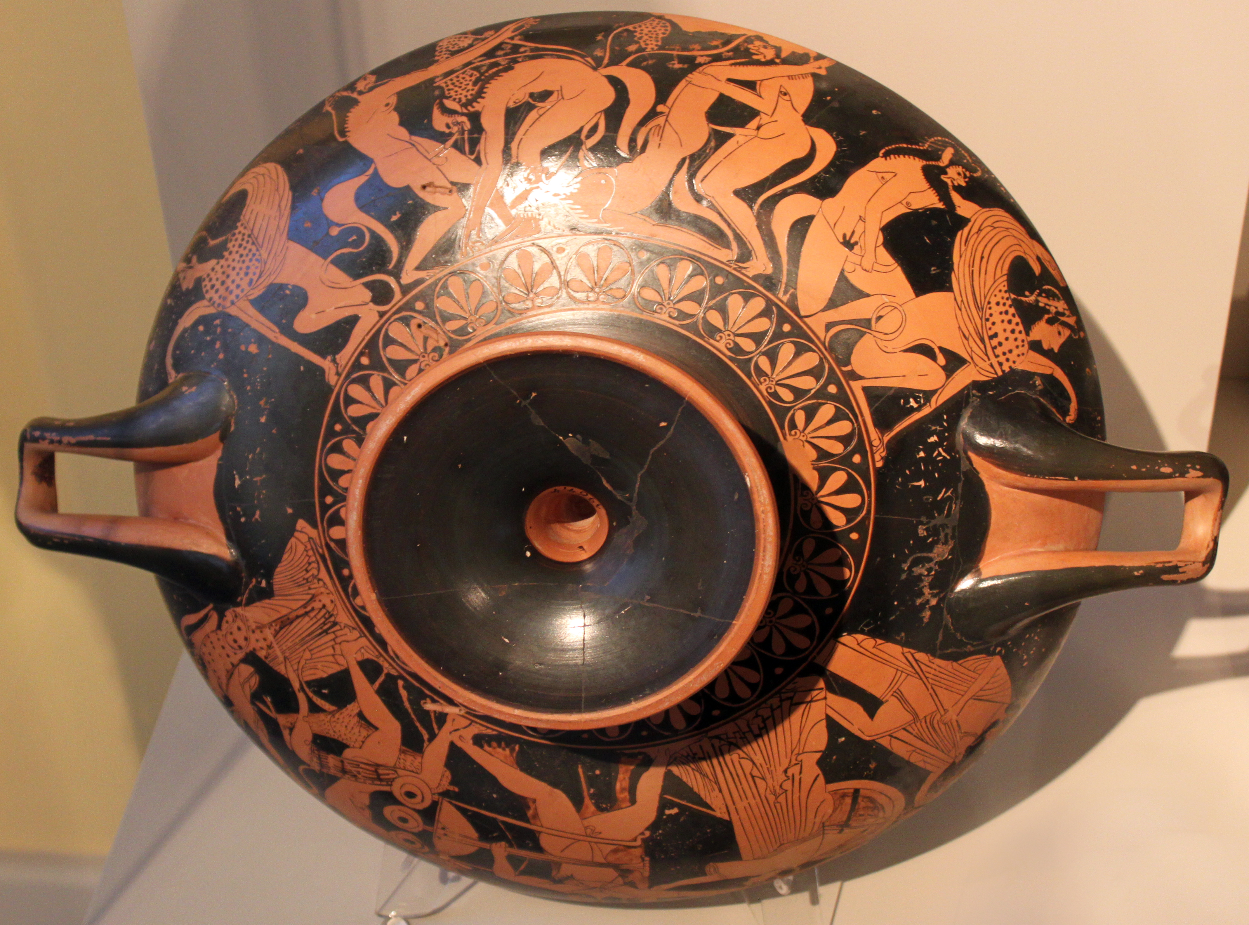 Symposium Tableware with erotic motif, Inv. 1964.4 Altes Museum Native nameAltes MuseumLocationBerlinCoordinates52° 31′ 10″ N, 13° 23′ 54″ E Established1828Website control VIAF: 202689698 LCCN: n83197241 GND: 4506837-9 WorldCat Section: The Garden of Delights - The Art of Love in Antiquity